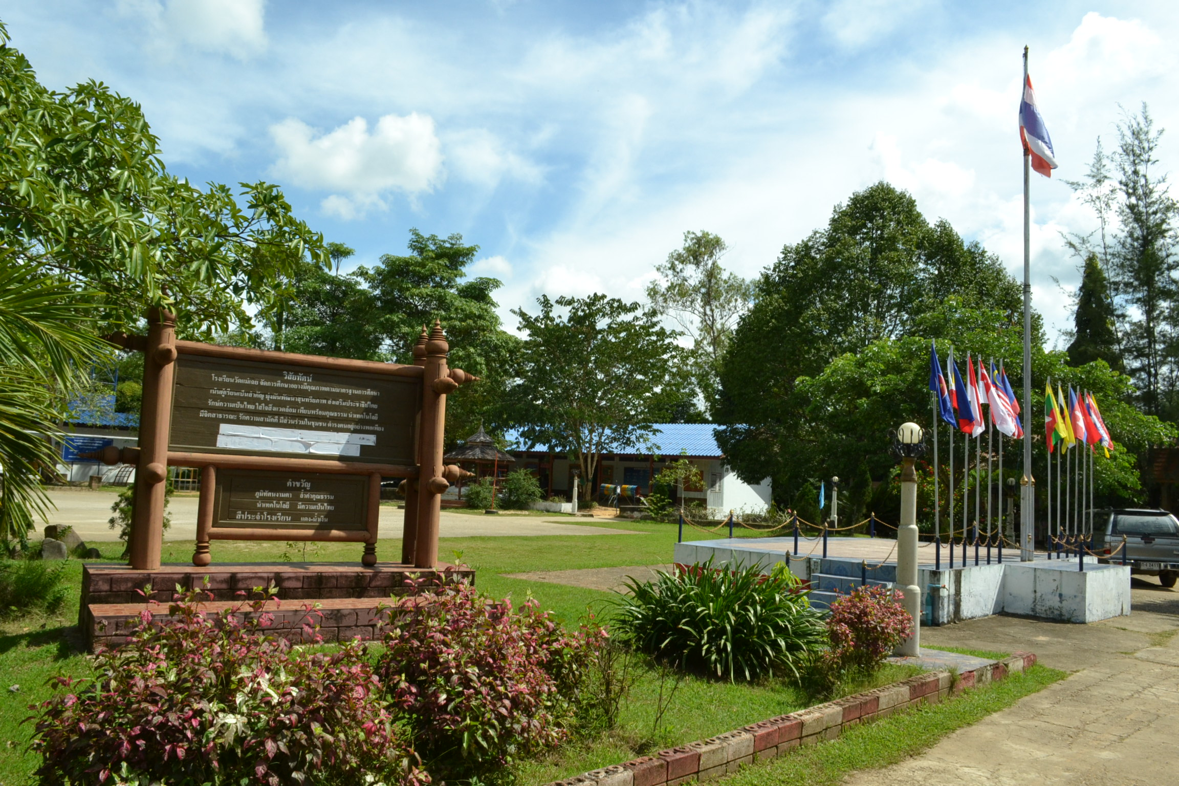 Wat Maecheai School , Mueang Uttaradit, Uttaradit Province, Thailand.